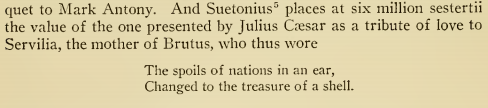 A section of from The Book of the Pearl which speaks of the pearl Caesar gave Servilia